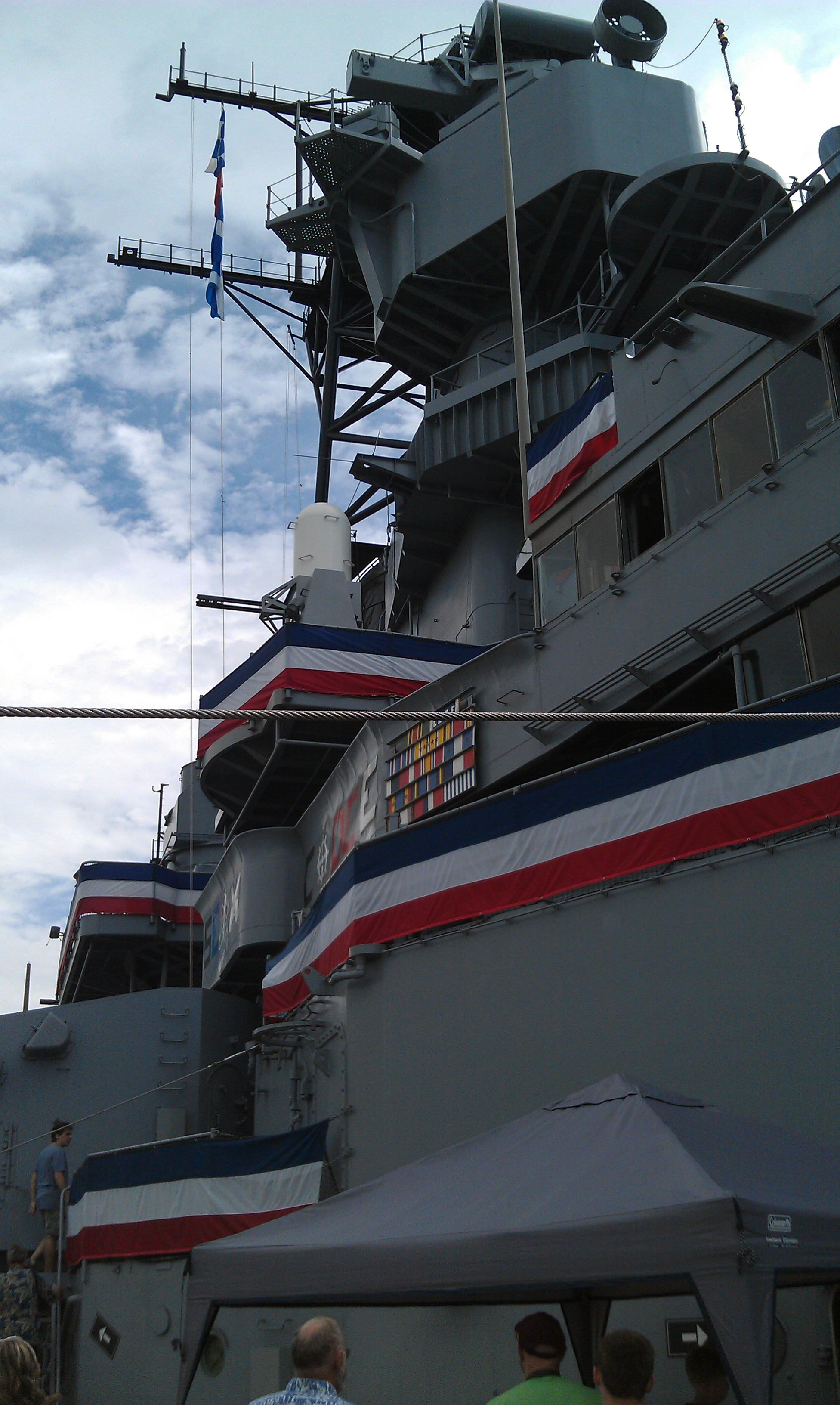 USS Iowa (BB-61) superstructure from starboard main deck level.